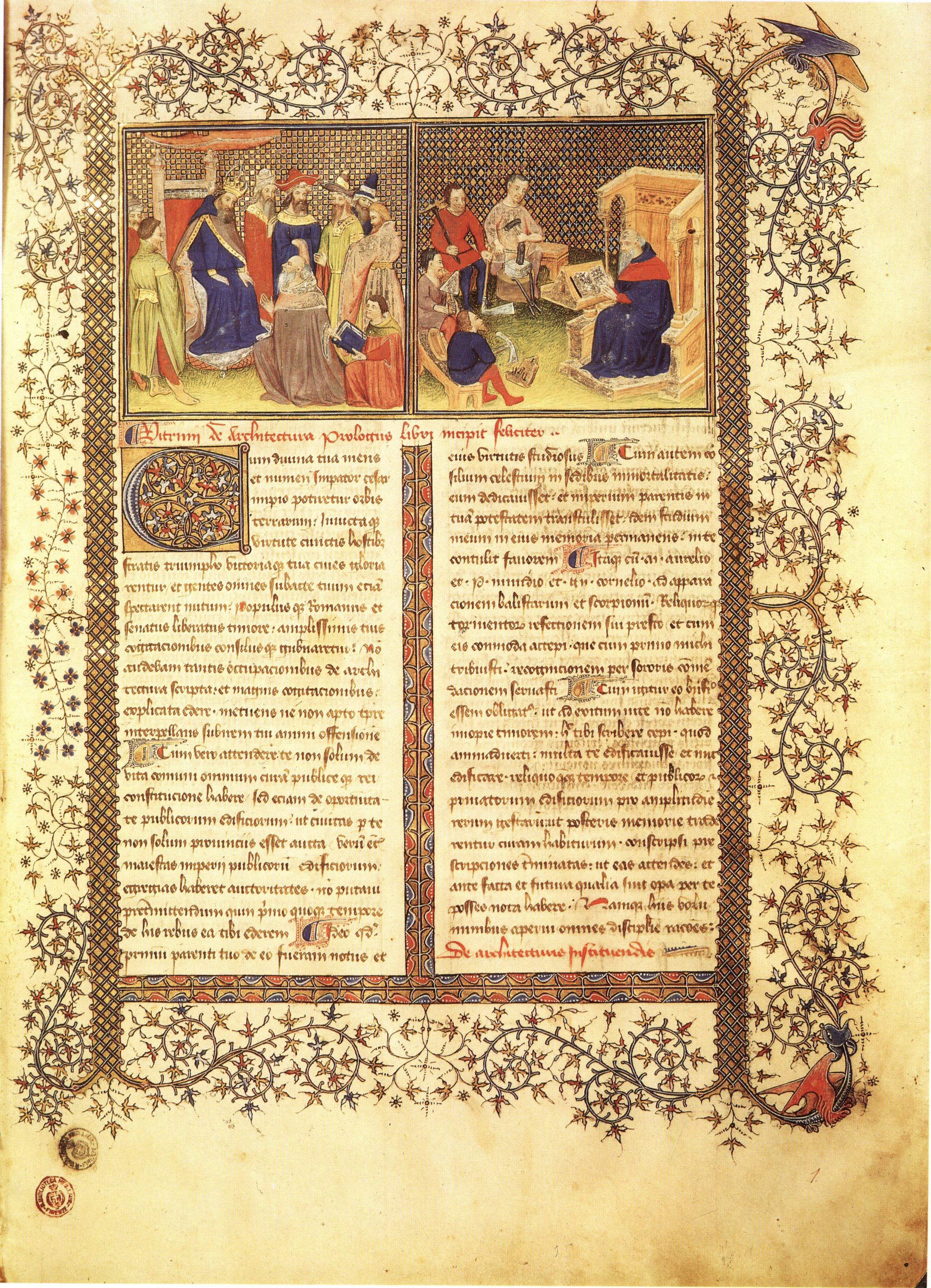 Vitruvius, De architectura in ms. Florence, Biblioteca Medicea Laurenziana, Plut. 30.10, fol. 1r.